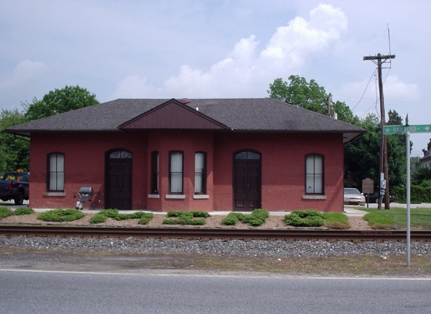 Wyoming, Delaware train depot in Wyoming Historic District